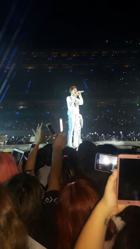 Chen at the Exo'rdium in México on April 27, 2017.